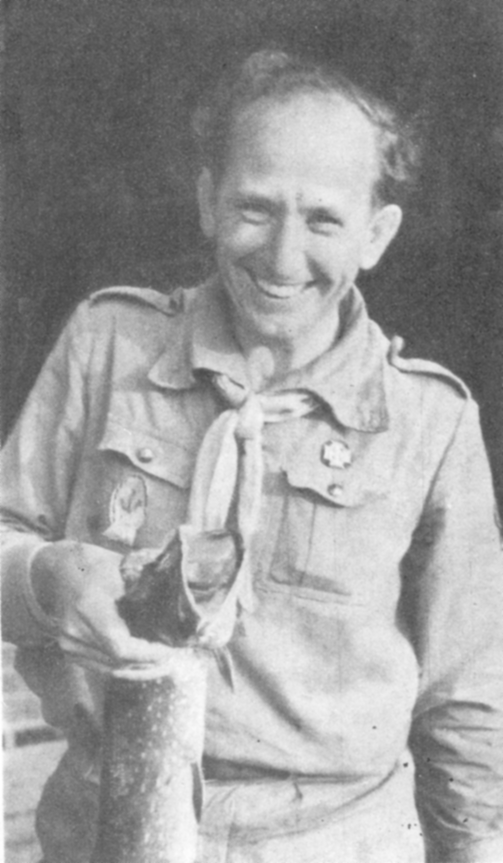 Adolf Warzok (1915–1997), Polish scout and doctor.